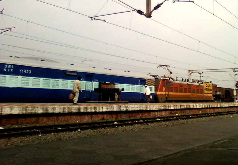 Kaziranga Express (SBC-Guwahati) at Duvvada Railway Station, Visakhapatnam